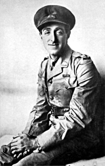 Portrait of Australian Victoria Cross recipient Lt. Leonard Keysor, who was awarded the VC as a Lance Corporal at Lone Pine, 7 August 1915, during the Battle of Gallipoli.